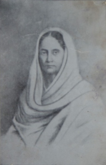 Mother of Vidyasagar